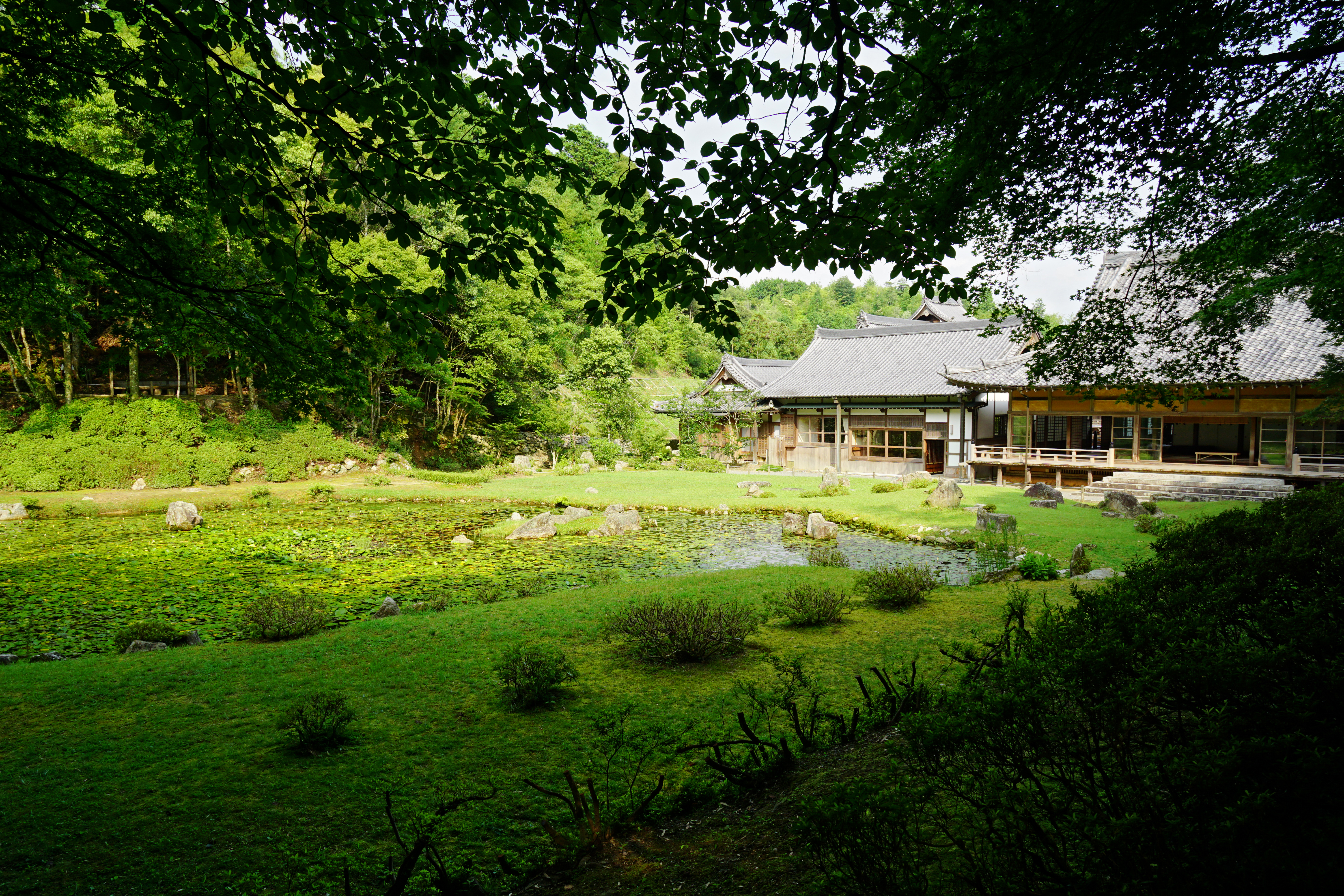 Jōei-ji in Yamaguchi, Yamaguchi prefecture, Japan.